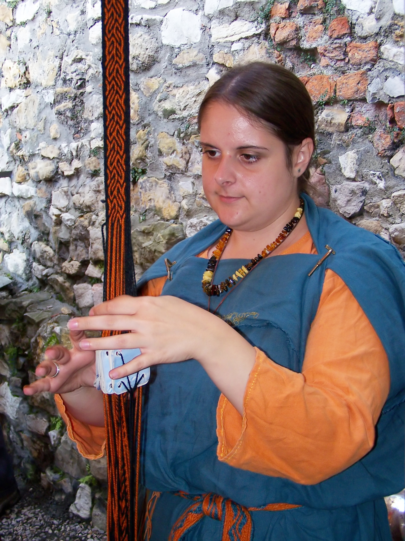 Medieval handicraft presented on celtic festival in Będzin.